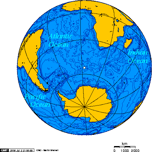 Orthographic projection centred over Bouvet Island